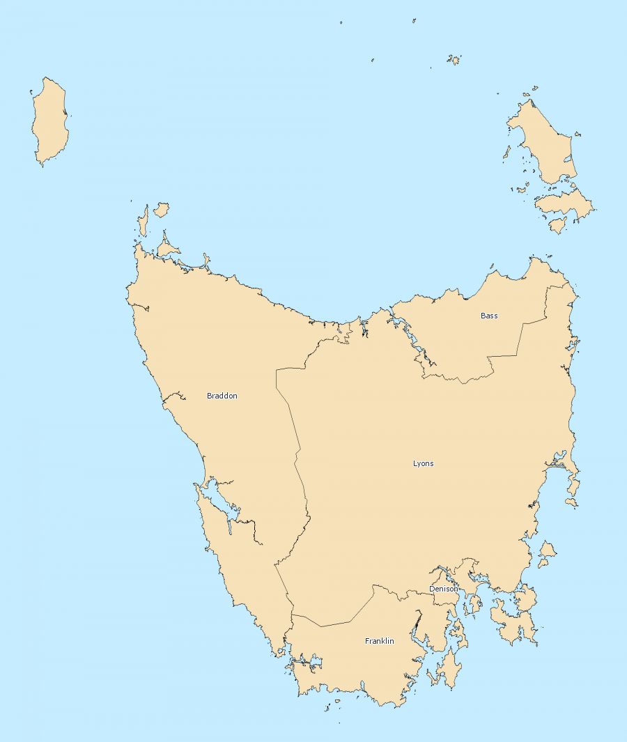 This image incorporates data that is: © Commonwealth of Australia (Australian Electoral Commission) 2009 Tasmania divisions overview 2010